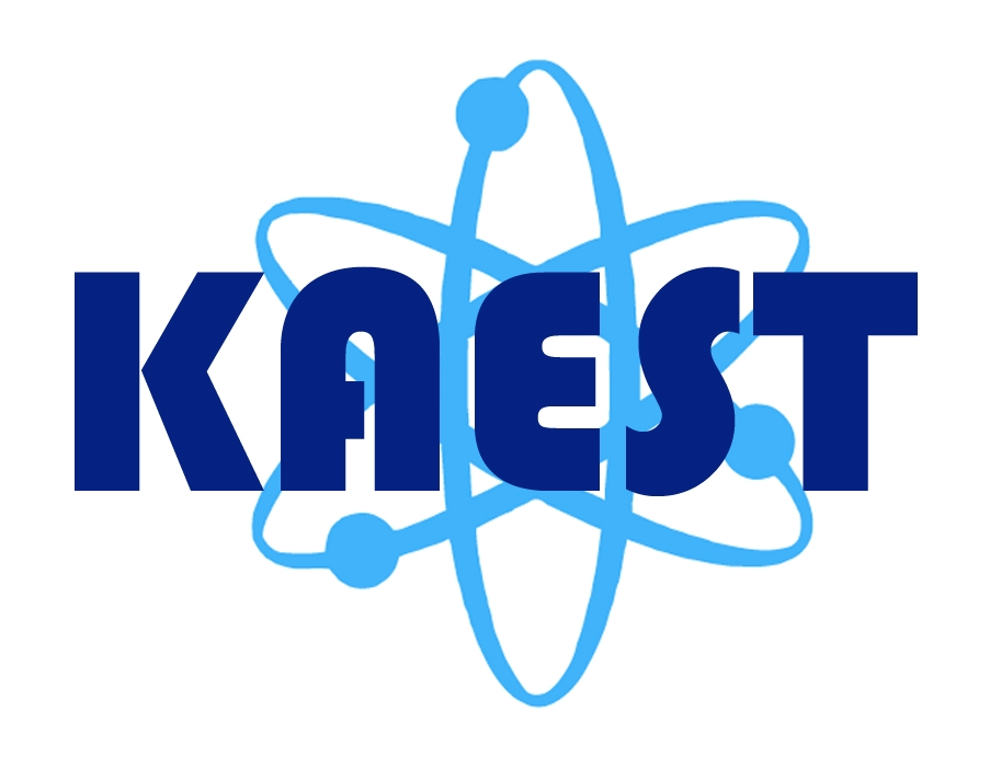 Logo of KAEST (Conference about Applications of Esperanto in Science and Technology).